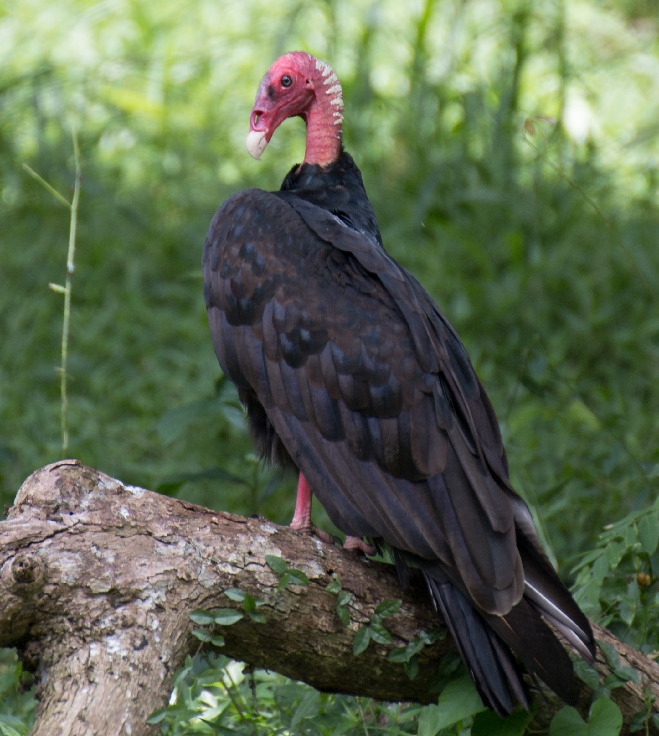 Trinidad 2014, Caribbean